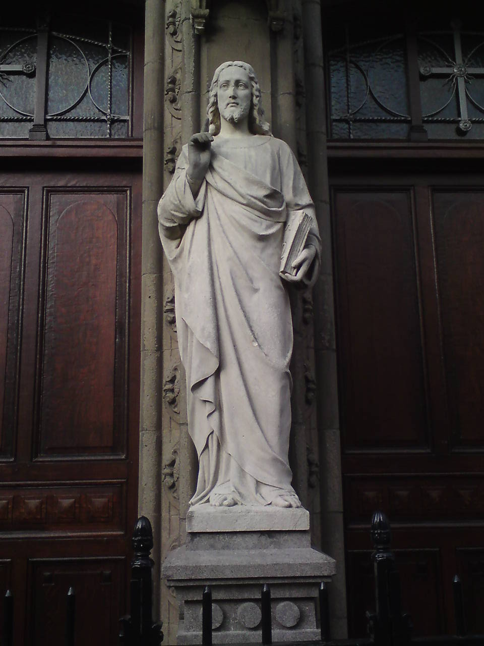 Statue of Christ at the Koepelkerk at the Grote Noord in Hoorn, North Holland, the Netherlands